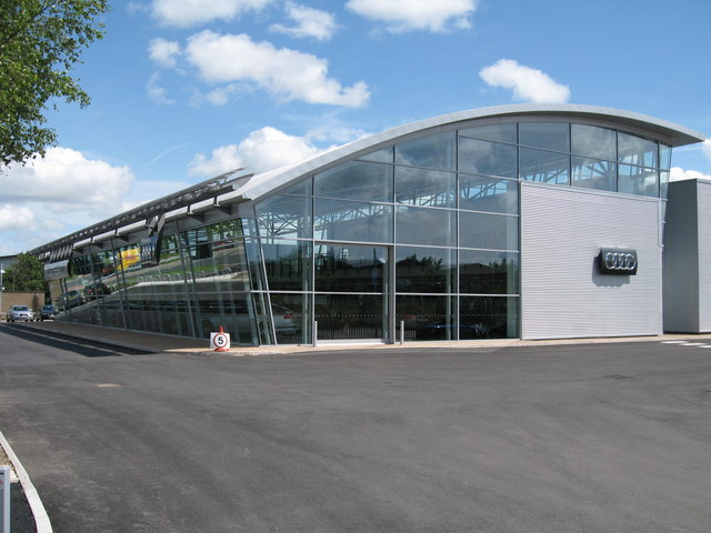 Car Showroom This brand new state of the art car showroom, on Charon Way in the Gemini Retail Park, houses the local Audi dealership. The grid square line actually runs straight through the centre of the premises.